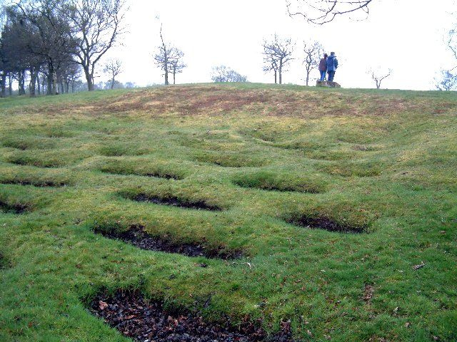 Rough Castle, Antonine Walled Fort (site). Rough Castle Fort, on the Antonine Wall, near Falkirk, Scotland. These pits, Known as Lilia's, were a defensive measure and would have been filled with sharpened spikes.